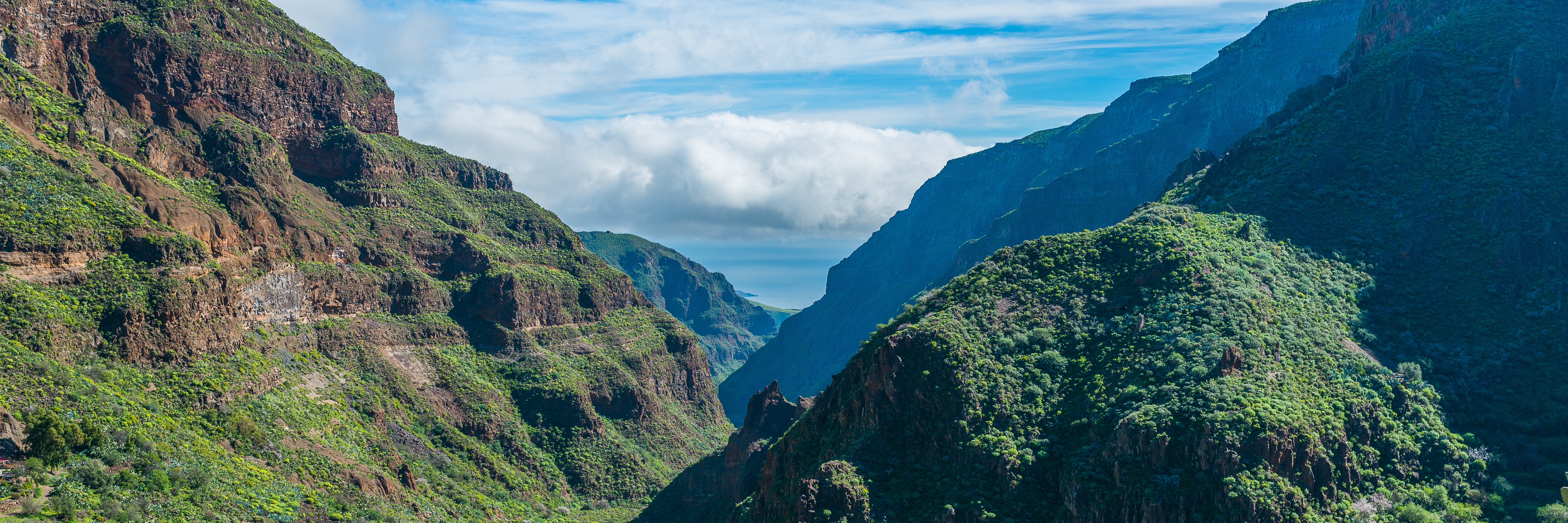 Guayadeque Canyon Gran Canaria January 2016